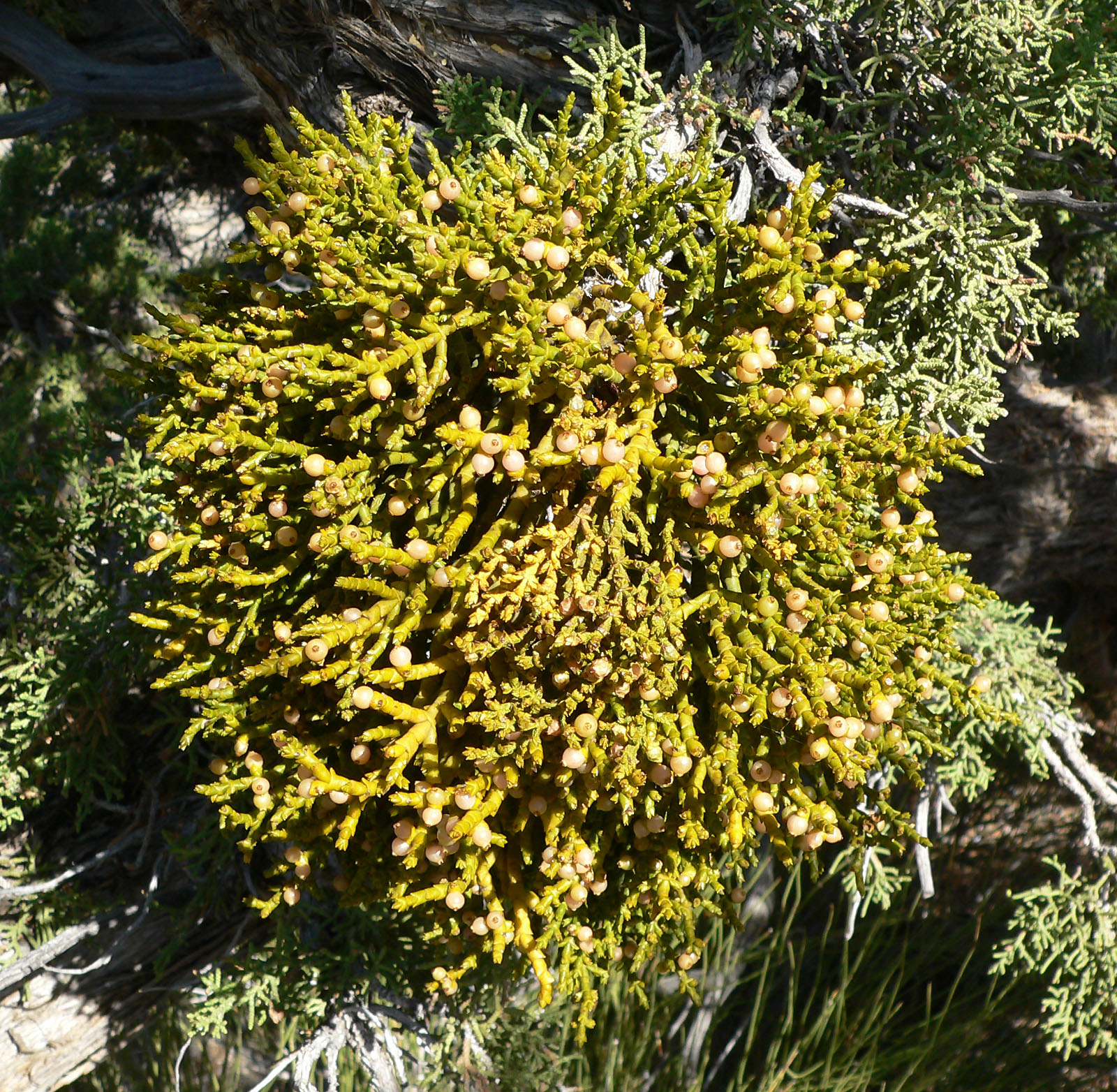 Phoradendron juniperinum just northwest of Mountain Springs, Spring Mountains, southern Nevada (elev. about 1700 m)